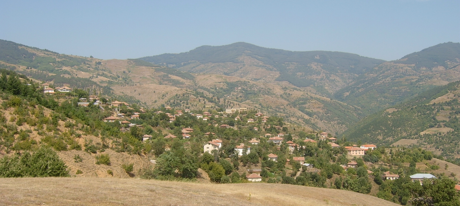 Panoramic view towards Gega, Bulgaria.